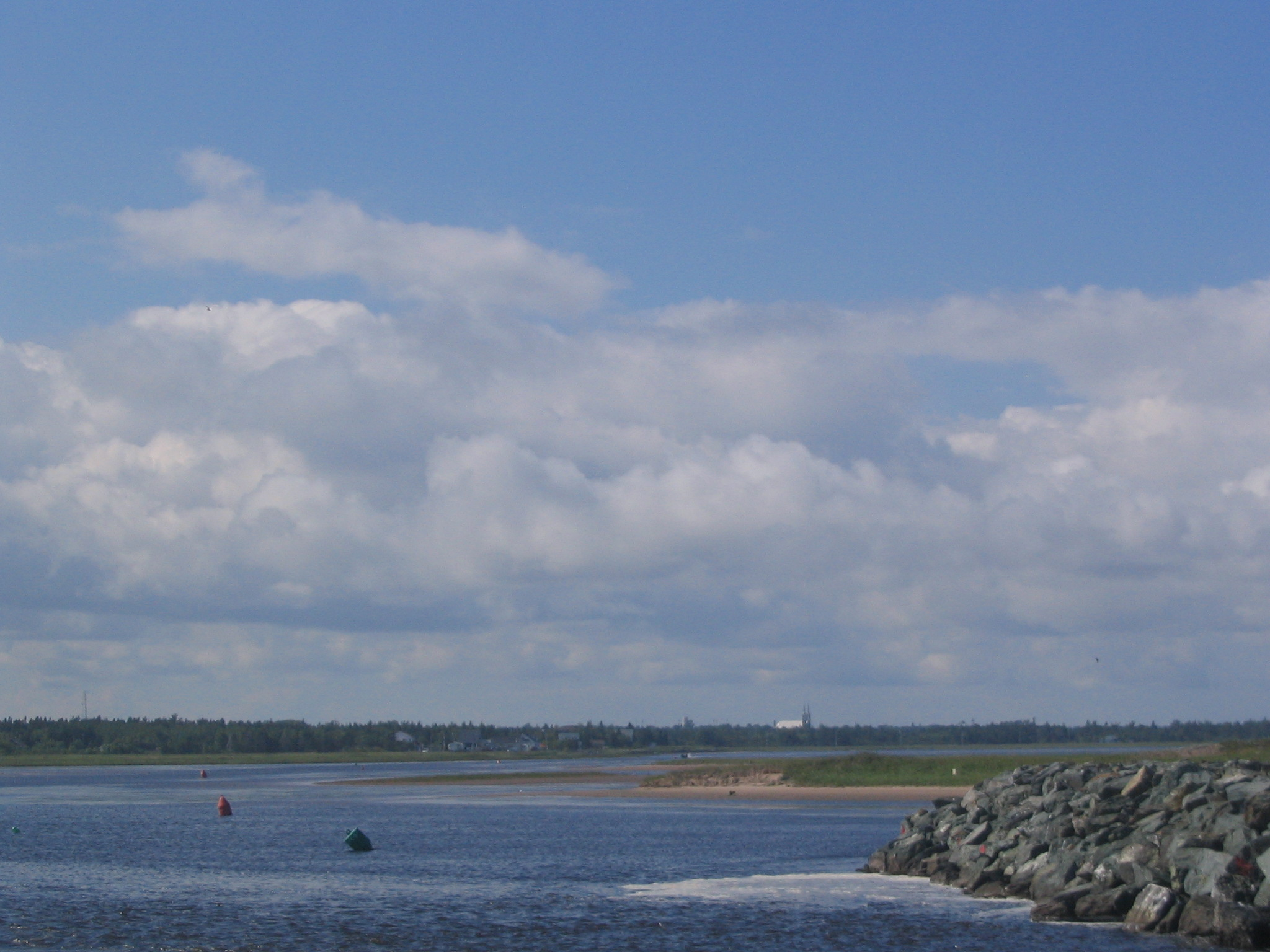 The mouth of Great Tracadie River, New Brunswick, Canada.